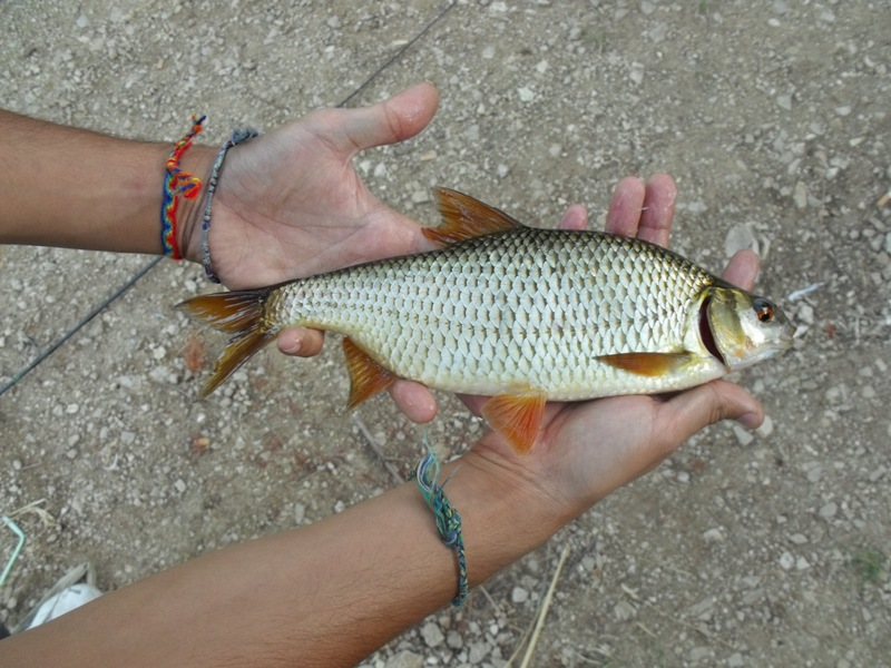 Rutilus rutilus collected in a Latium lake (Central Italy). Photo by Massimiliano Marcelli.